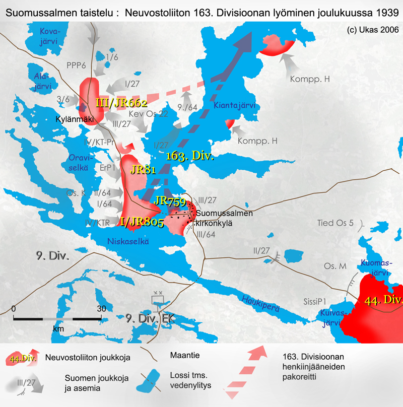 Map: Destruction of Soviet 163. Division in the battle of Suomussalmi during the Winter War